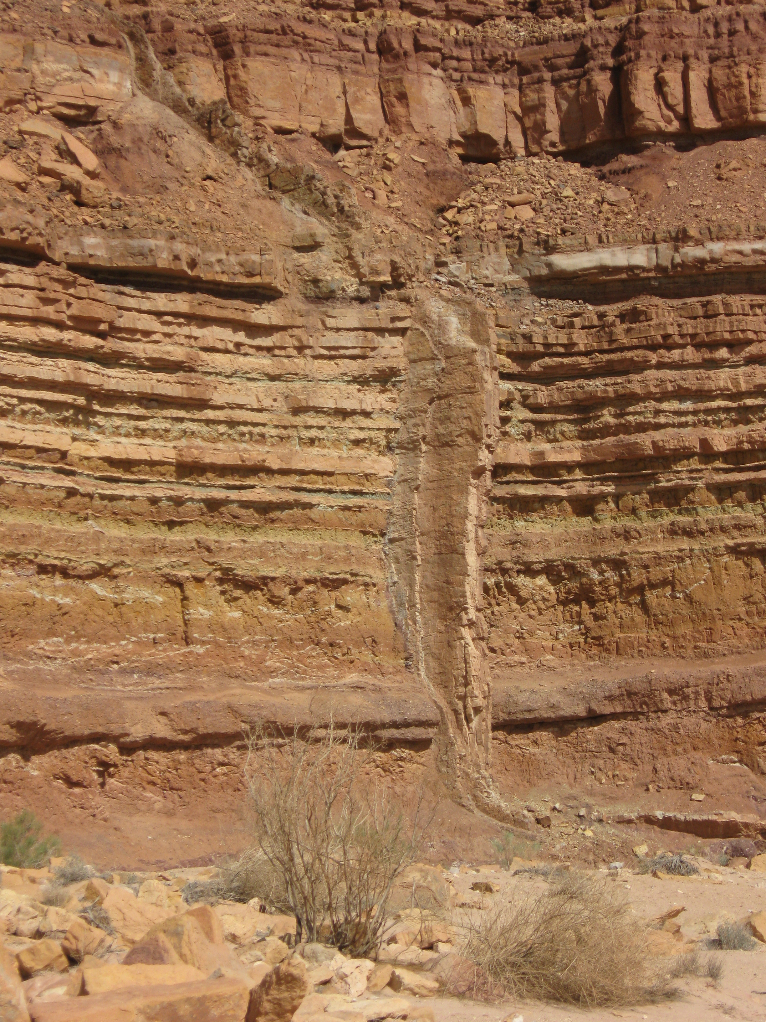 A Geological dike at Makhtesh Ramon, Negev, Israel